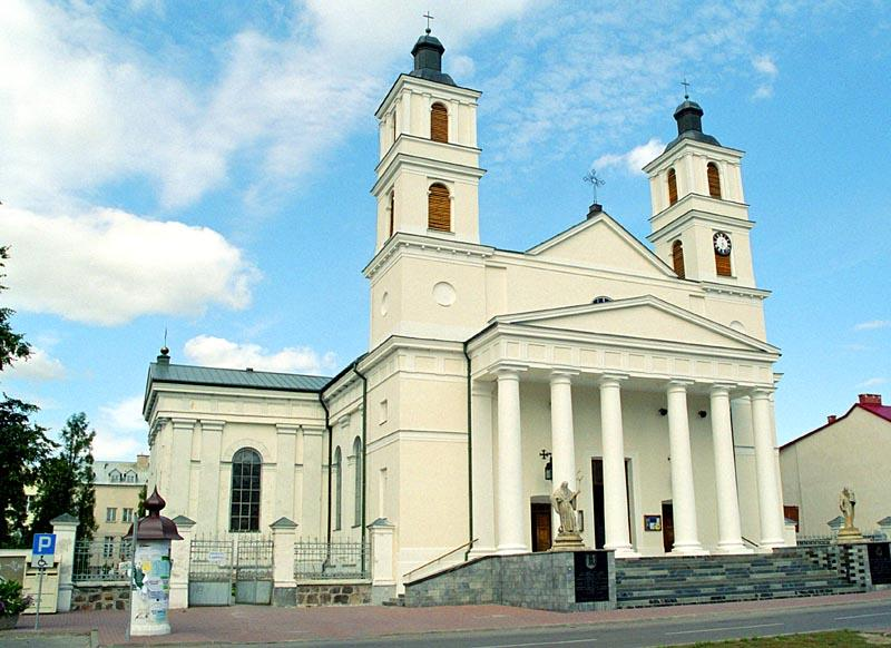 Church Saint Alexander in Suwałki - Podlachia (Poland)